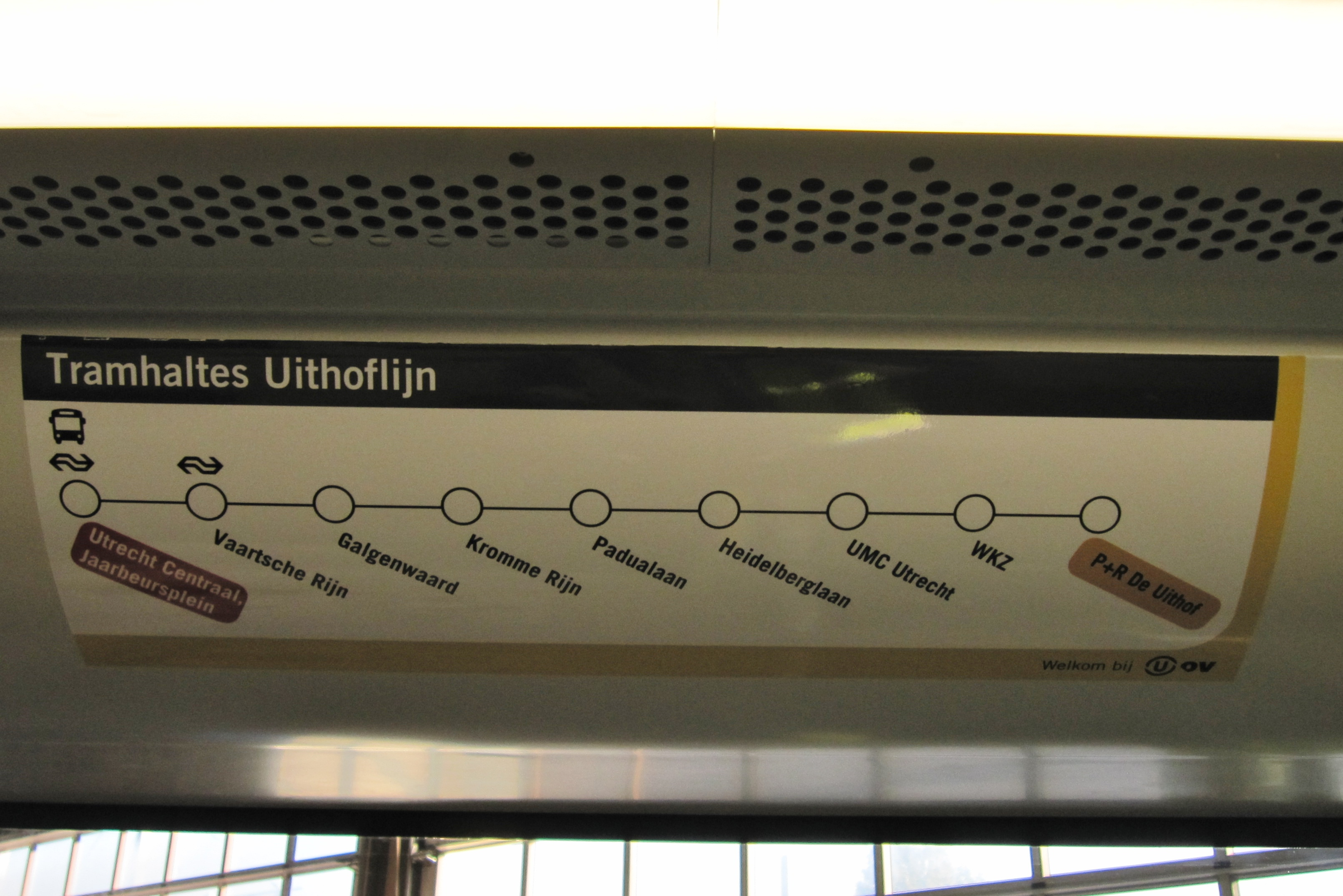 Route diagram Uithoflijn in tram mock-up